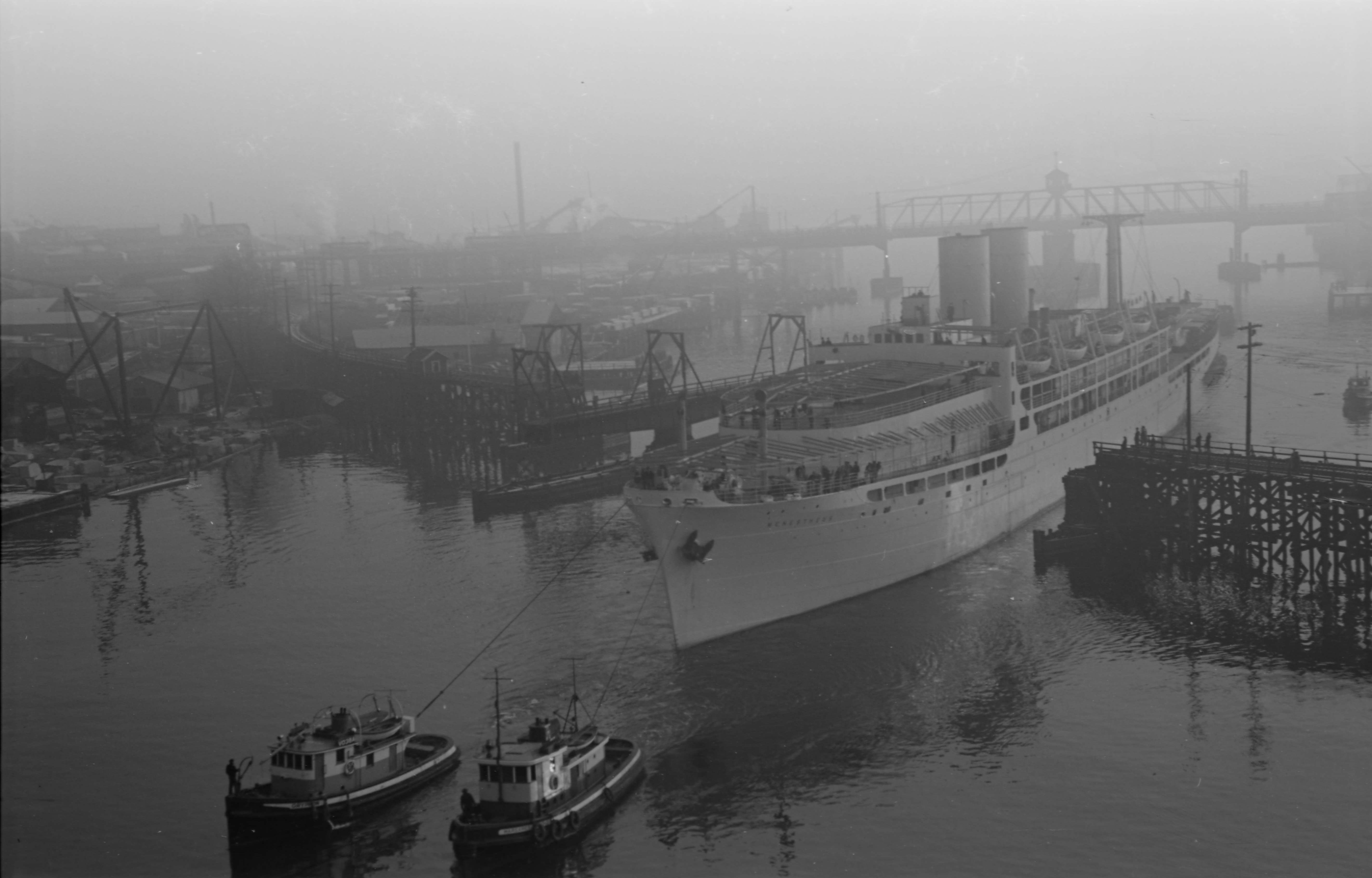 HMS Menestheus being towed out of False Creek toward English Bay by two tugboats in 1945. Shows the Kitsilano Trestle Bridge (train bridge) in open position with Granville Street Bridge in the background. Photo likely taken from the south side of Burrard Street Bridge while facing south-east. Vancouver BC, Canada.